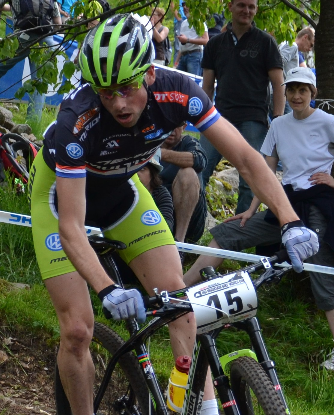 Rudi van Houts